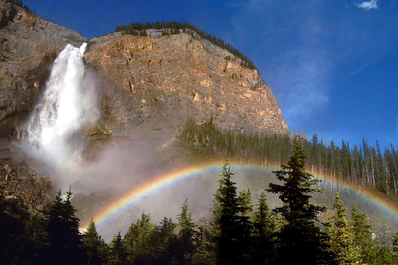 Rainbows can often be seen in the spray and mist coming from larger waterfalls, as here at Takakkaw Falls, Canada.